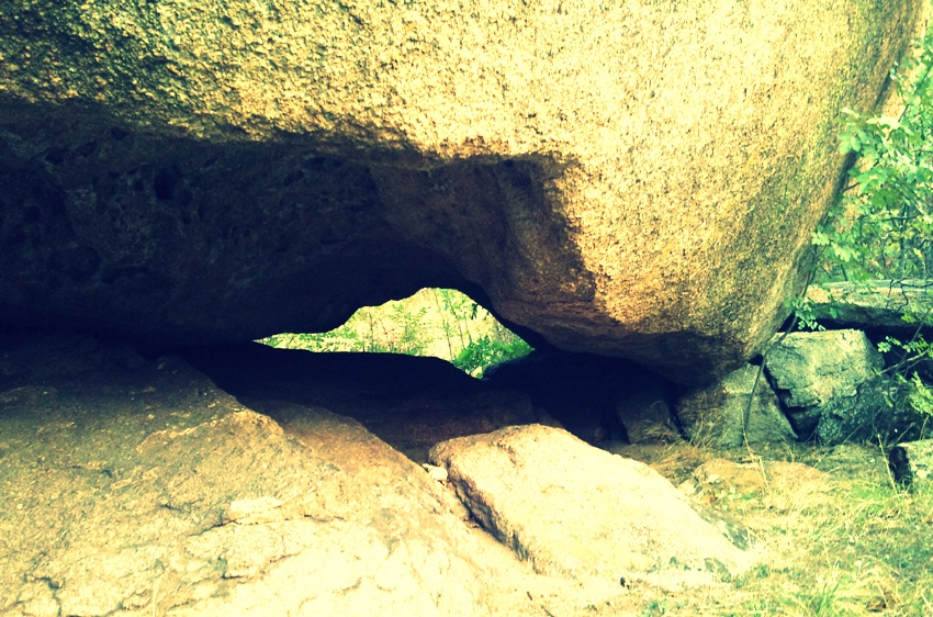 Golemia-kamuk-4